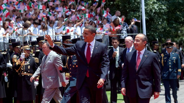 President Barack Obama is welcomed by Mexico's President Felipe Calderon in Mexico City.